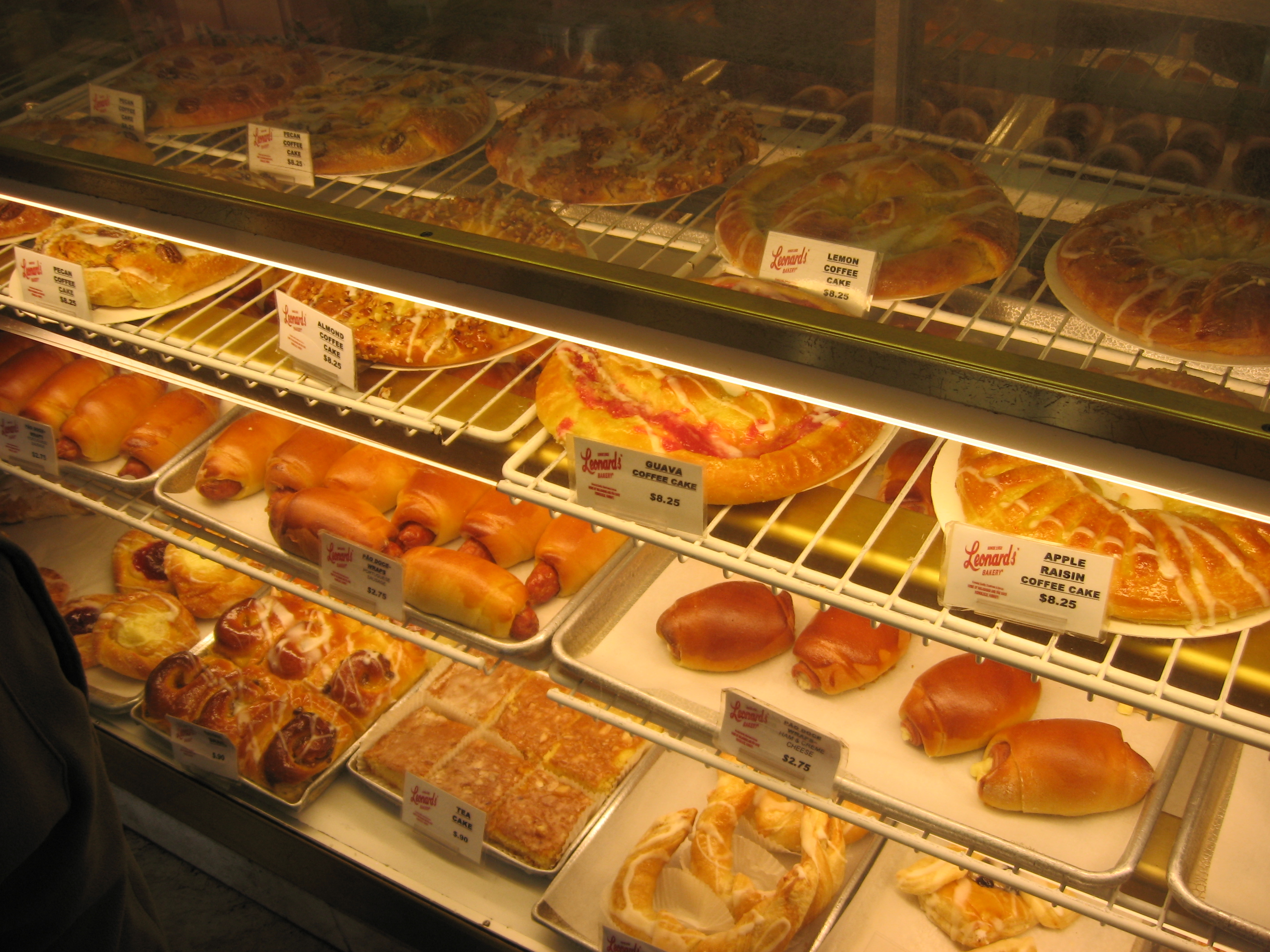 Eat their malasadas and other good things.